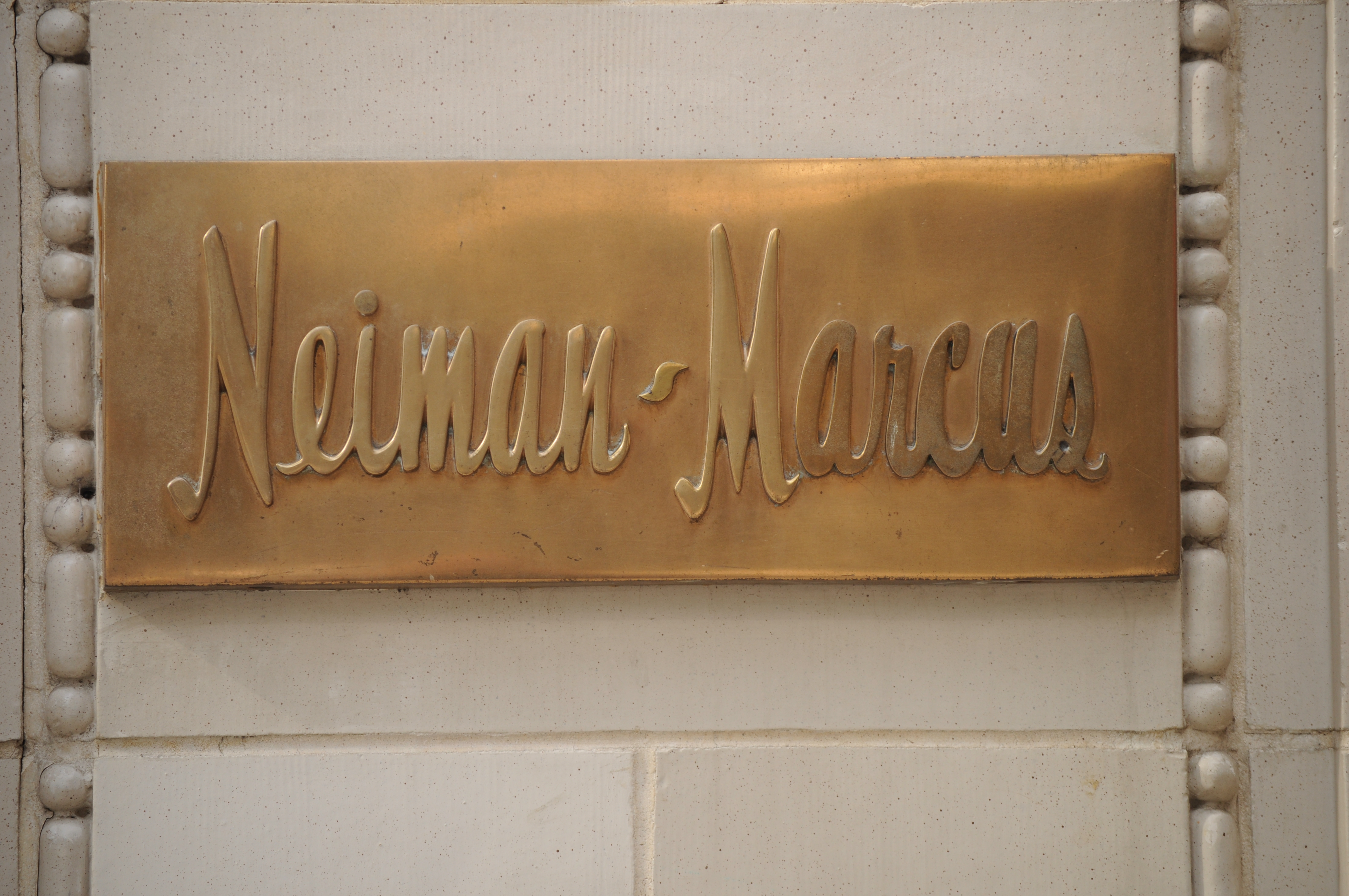 Sign/plaque with logo, Neiman Marcus flagship store, Dallas, Texas, United States.